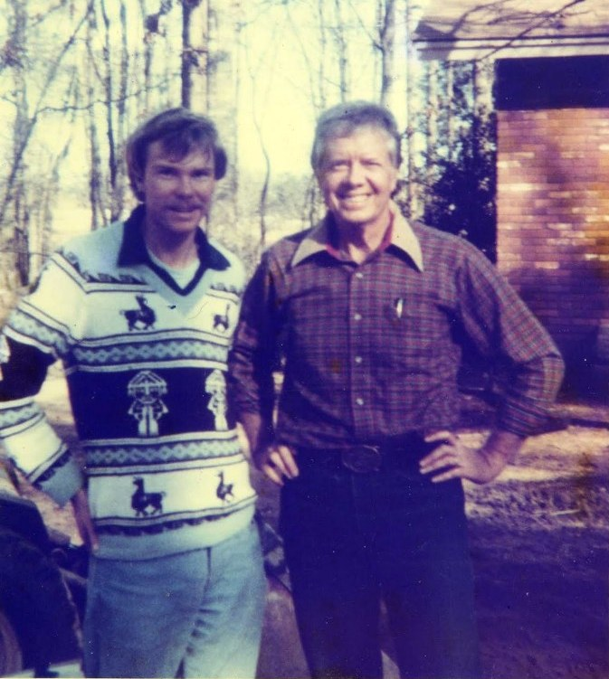 Meegan visits Jimmy Carter in Plains.